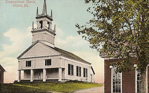 Congregational Church, Oxford, Maine. It was built in 1842-1843.